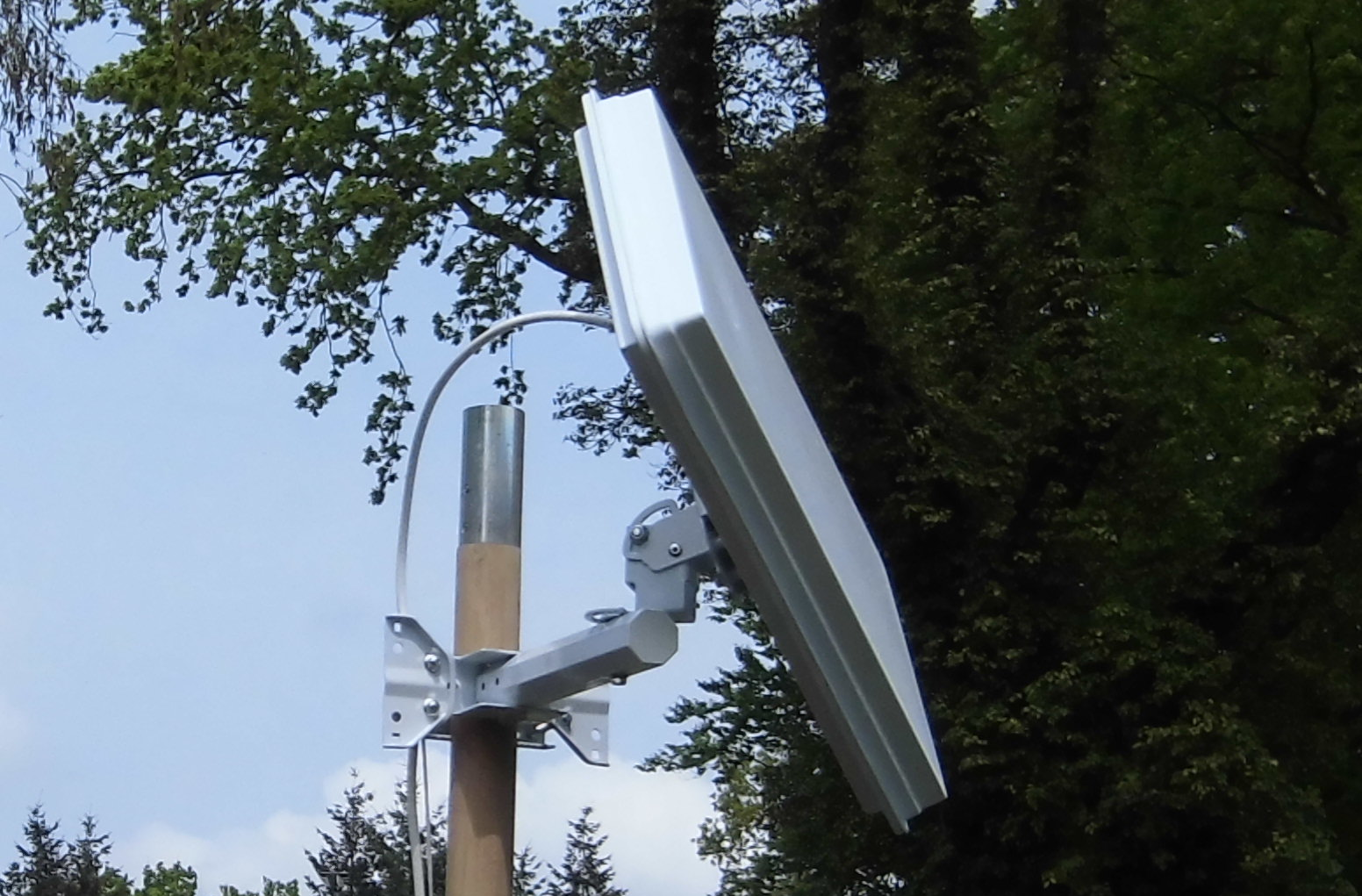 SelfSat H30D